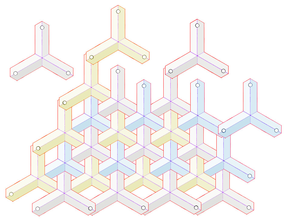 construction of Chinese Star Scale